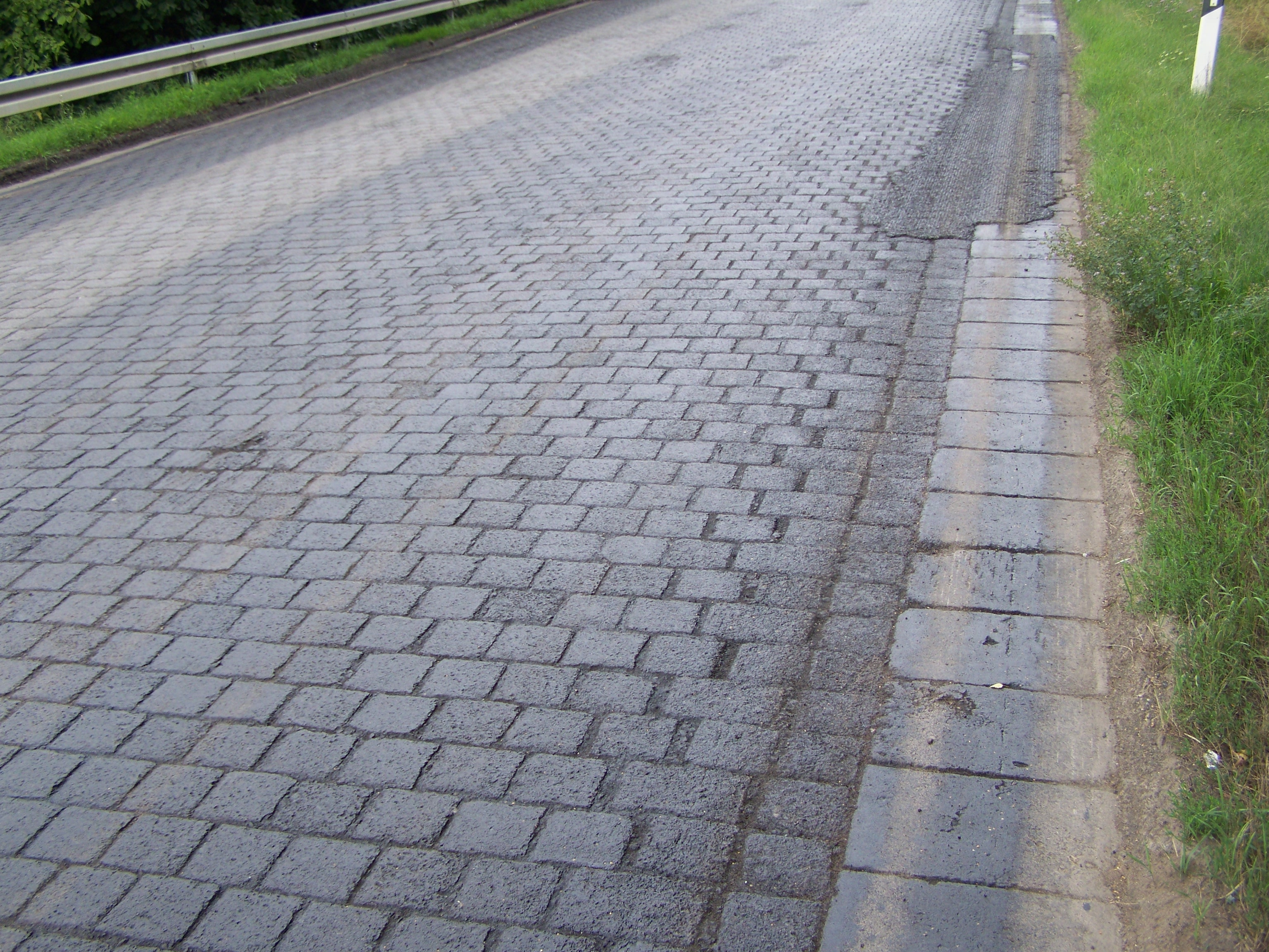 Old copper-slag-brick-pavement of the former road (chaussee) from Halle to Eisleben (today Landesstraße 156) nearby Bennstedt in Saxony-Anhalt